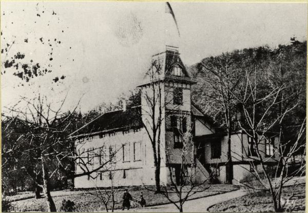 Gillbladska landeriet, a mansion t the island of Hisingen on the north side of Gothenburg